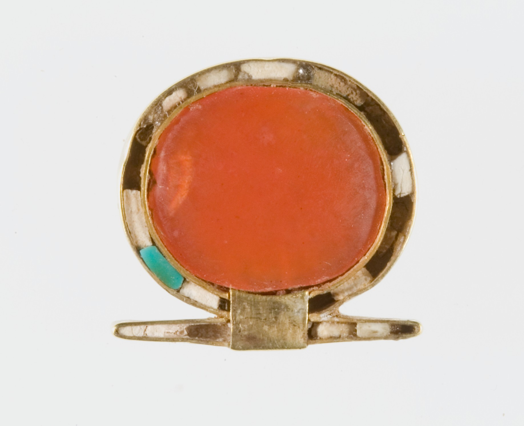 Clasp, Sithathoryunet